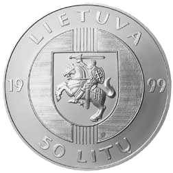 50 litas coin issued to mark the 10th Anniversary of the Baltic Way Silver Ag 925 Quality proof Diameter 38.61 mm Weight 28.28 g The words on the edge of the coin: VILNIUS RYGA TALINAS (FOR LITHUANIA'S SAKE LET OUR UNITY BLOSSOM) Mintage 4,000 pcs Issued 1999 Distribution terminated 2004 Distributed 2,542 pcs The coin was minted at the state enterprise Lithuanian Mint.